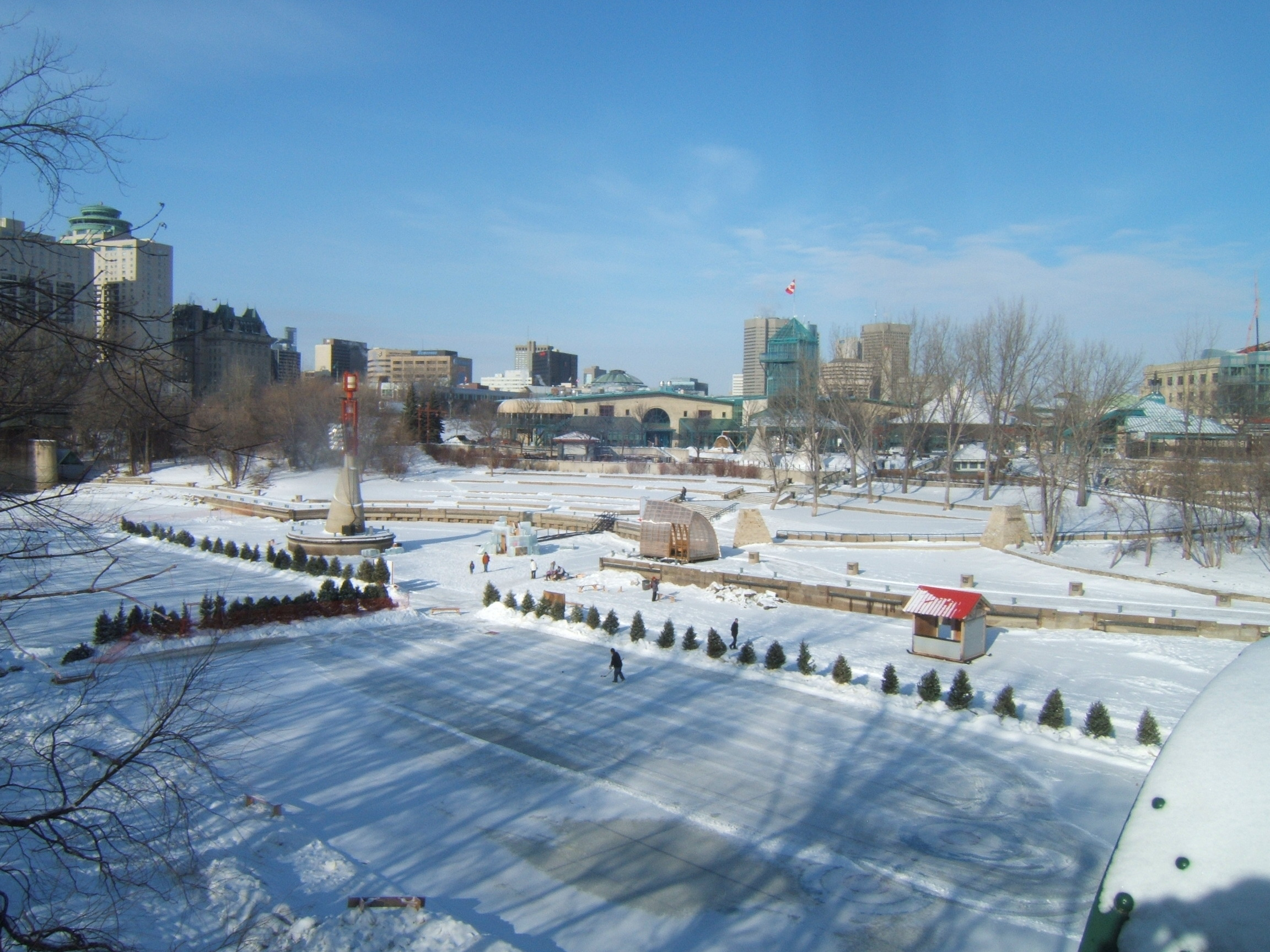 View of The Forks looking north.